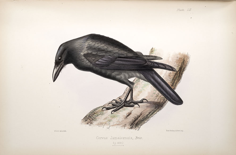 A plate from "Illustrations of the birds of Jamaica"; Imprint: London, 1849. Corvus jamaicensis; ID: SIL33-140-02